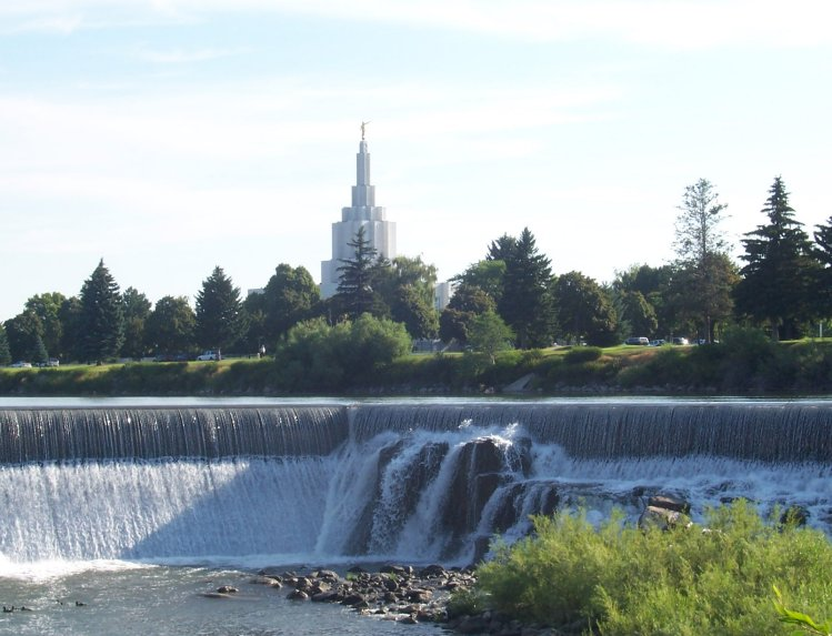 This photo was taken at around 8:30am on July 16th, 2006, on an overlook near the Idaho Falls Temple of The Church of Jesus Christ of Latter-day Saints.